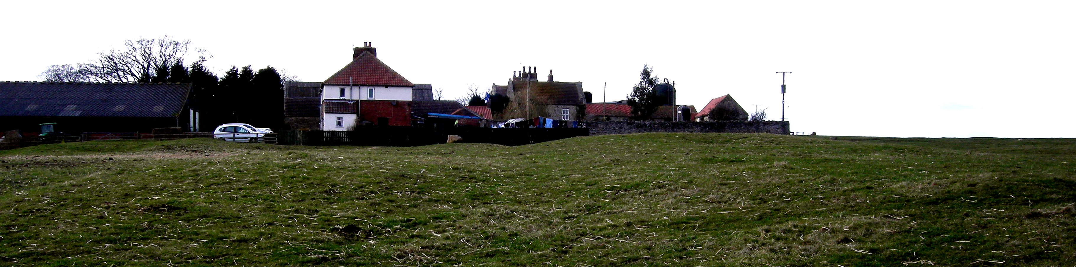 The lost village of Ulnaby, County Durham, England. Occupied 13th-16th century; now visible only as lumps and bumps in a field at Ulnaby Hall Farm. Undulating ground behind farm: the site of the last remaining building which was used at the last as a barn. Picture adjusted to show up lumps and bumps in ground.